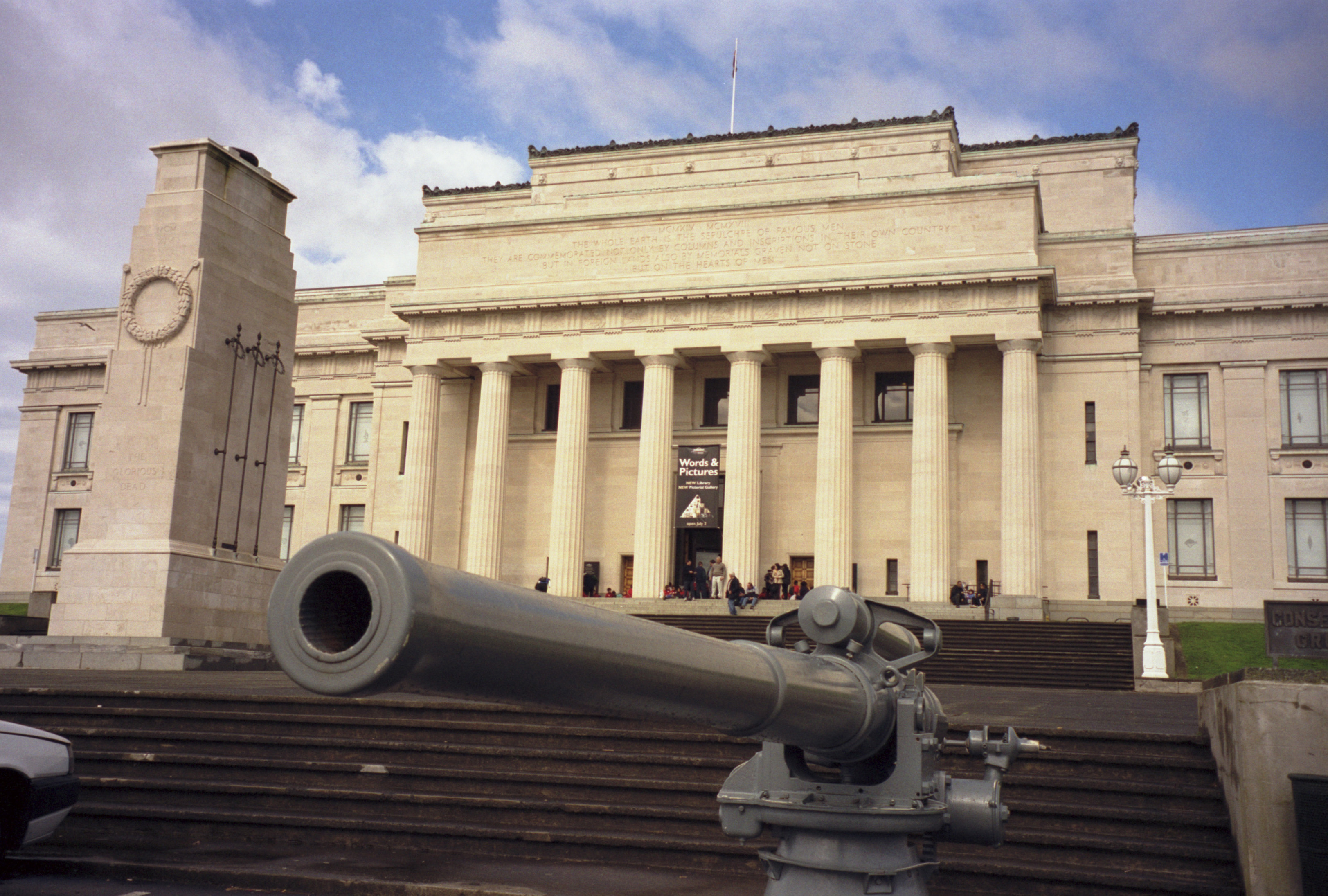 Auckland War Memorial Museum, New Zealand. The gun is a BL 4 inch Mk VII from HMS New Zealand.